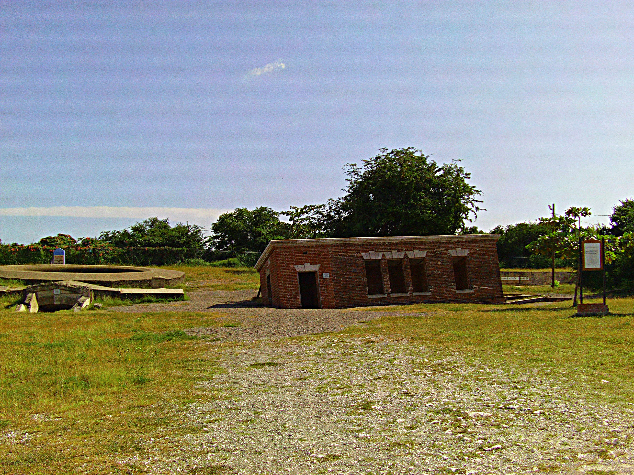 Storehouse from the Victoria and Albert Battery, Port Royal. Tilted during the 1907 earthquake.